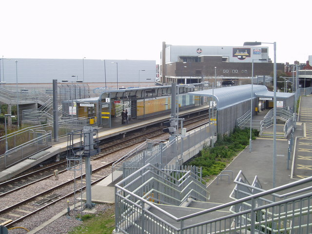 The Stadium of Light Metro Station, Monkwearmouth, Sunderland, 17th April 2006